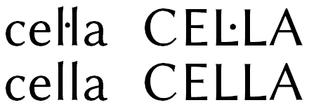 Example of usage of ŀ letter.